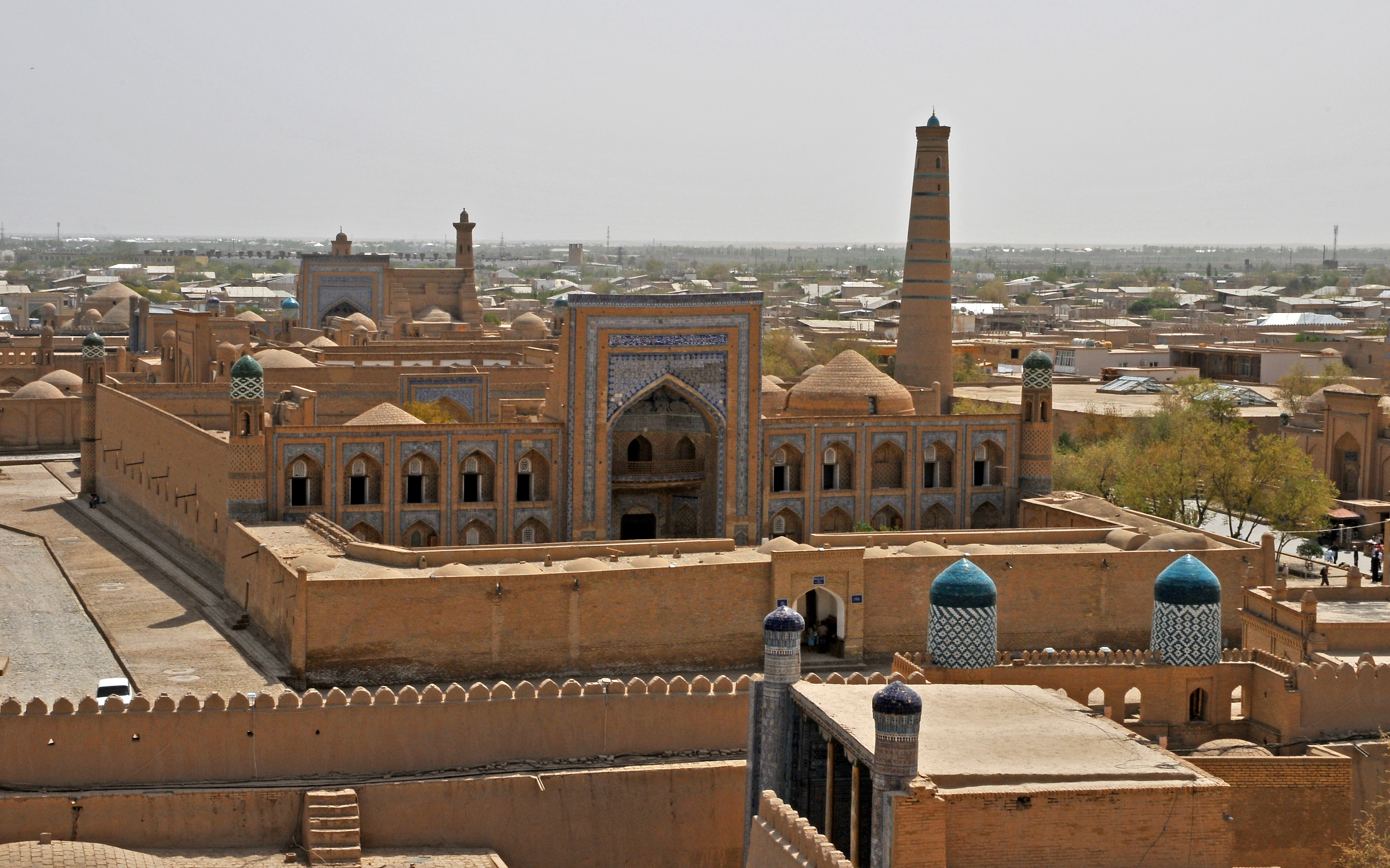 View of the old city [Itchan Kala] from the citadel [Konya Ark] rooftop. Khiva, Uzbekistan